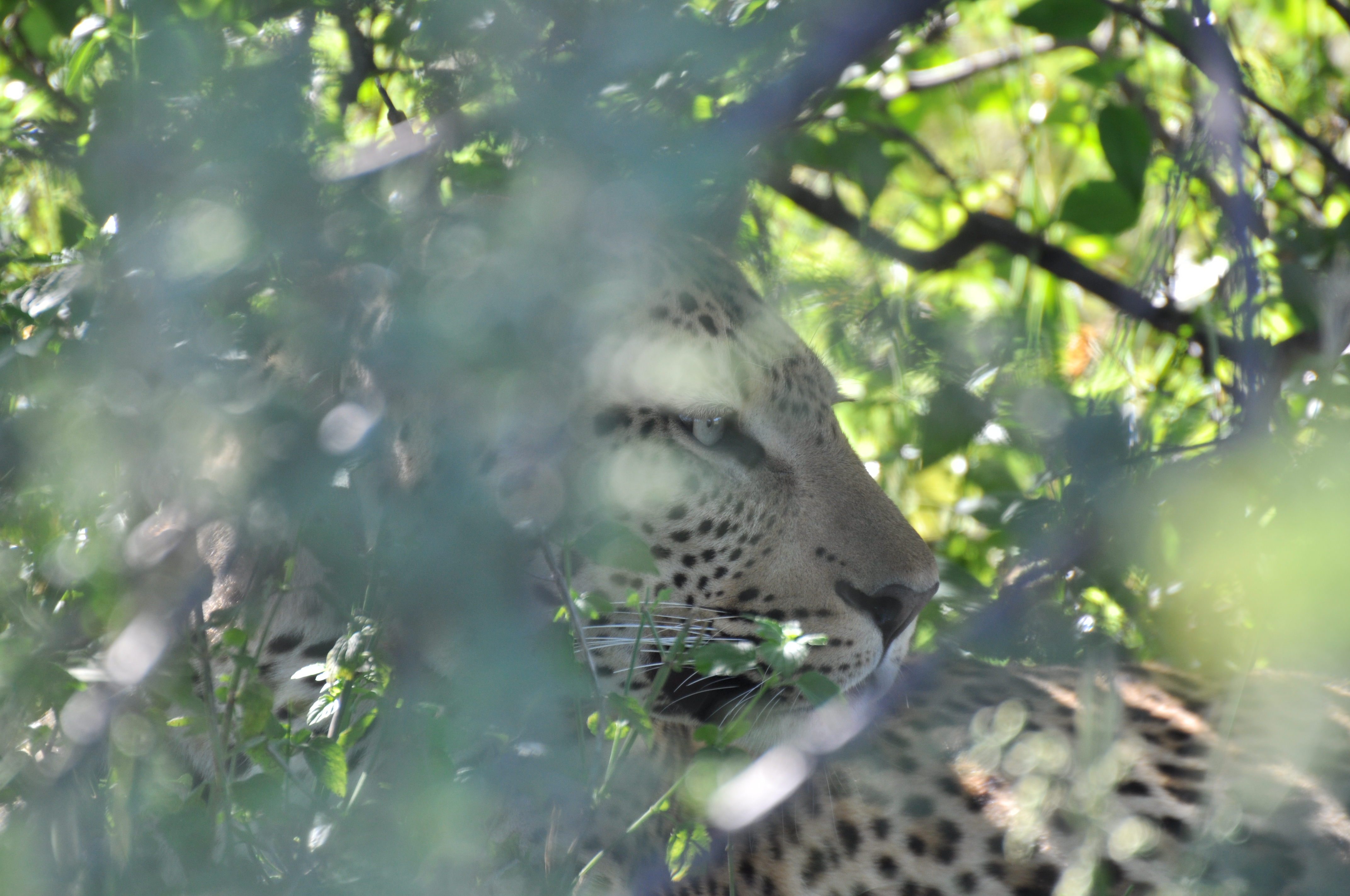 Leopard in the bushes in Namibia.